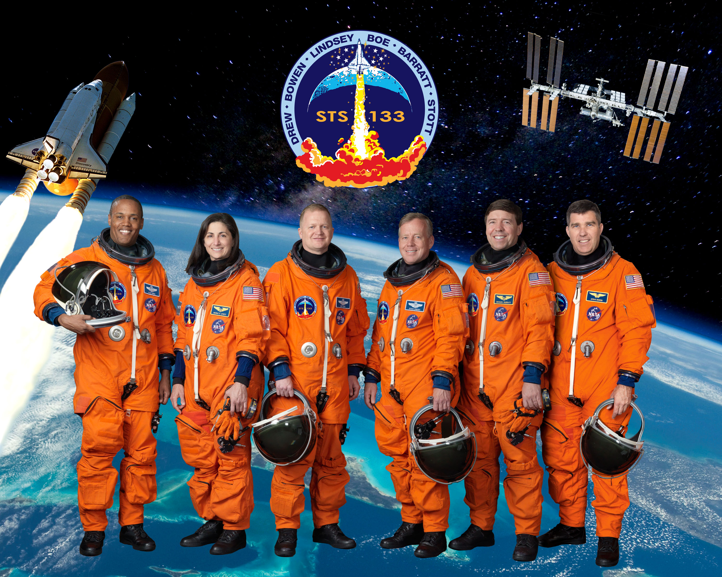 Attired in training versions of their shuttle launch and entry suits, these six astronauts take a break from training to pose for the STS-133 crew portrait. Pictured are NASA astronauts Steve Lindsey (center right) and Eric Boe (center left), commander and pilot, respectively; along with astronauts (from the left) Alvin Drew, Nicole Stott, Michael Barratt and Steve Bowen, all mission specialists.